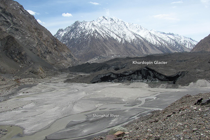 Several of the glaciers that flow into this valley surge, meaning they cycle through periods when they flow forward several times faster than usual. Since the valley is narrow and has a river running through it, surging glaciers regularly dam the river and create flood hazards. The floods occur when water pooling up behind the tongue of the advancing glacier suddenly breaks through the natural ice dam and cascades down the gorge. Khurdopin has surged most recently. After years of little movement, the glacier began a rapid advance in October 2016, accelerating to a rate of roughly 20 meters (65 feet) per day by the spring of 2017—one of the fastest rates observed for a glacier in this region. As ice and sediment pushed into the river, a sizable lake pooled up in March 2017. Jakob Steiner of Utrecht University and the Mountain Hydrology Group has been monitoring the growth of the lake using imagery collected by Landsat 8 and Planet Labs, a commercial satellite company. By July 2017, the river had carved an outlet through the glacial debris before the lake could grow extremely large, but Steiner’s group continued to keep a watchful eye on this area because of how much debris the glacier pushed into the river. The surge increased the thickness of the end of the glacier by as much as 80 meters (260 feet), according to Steiner. The photograph above, taken by Waheed Anwar of Focus Pakistan, shows the tip of the sediment-coated glacier pushing into the river on May 15, 2017. The camera is pointed upstream toward Khurdopin glacier.